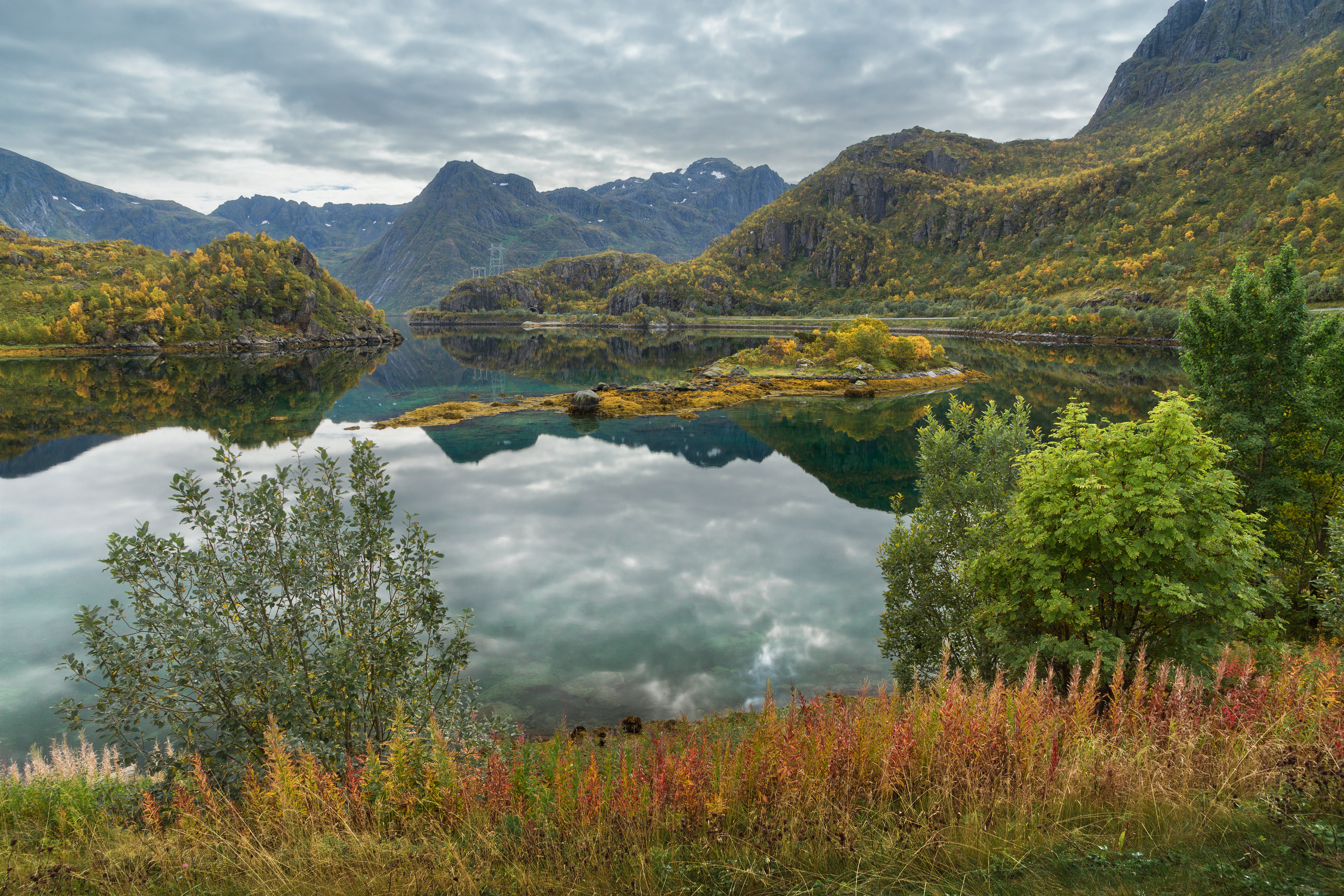 A view to Sløverfjorden towards south in Hadsel municipality, Austvågøya island, Lofoten, Norway in 2015 September. The photography spot is located at Årnøysundet.